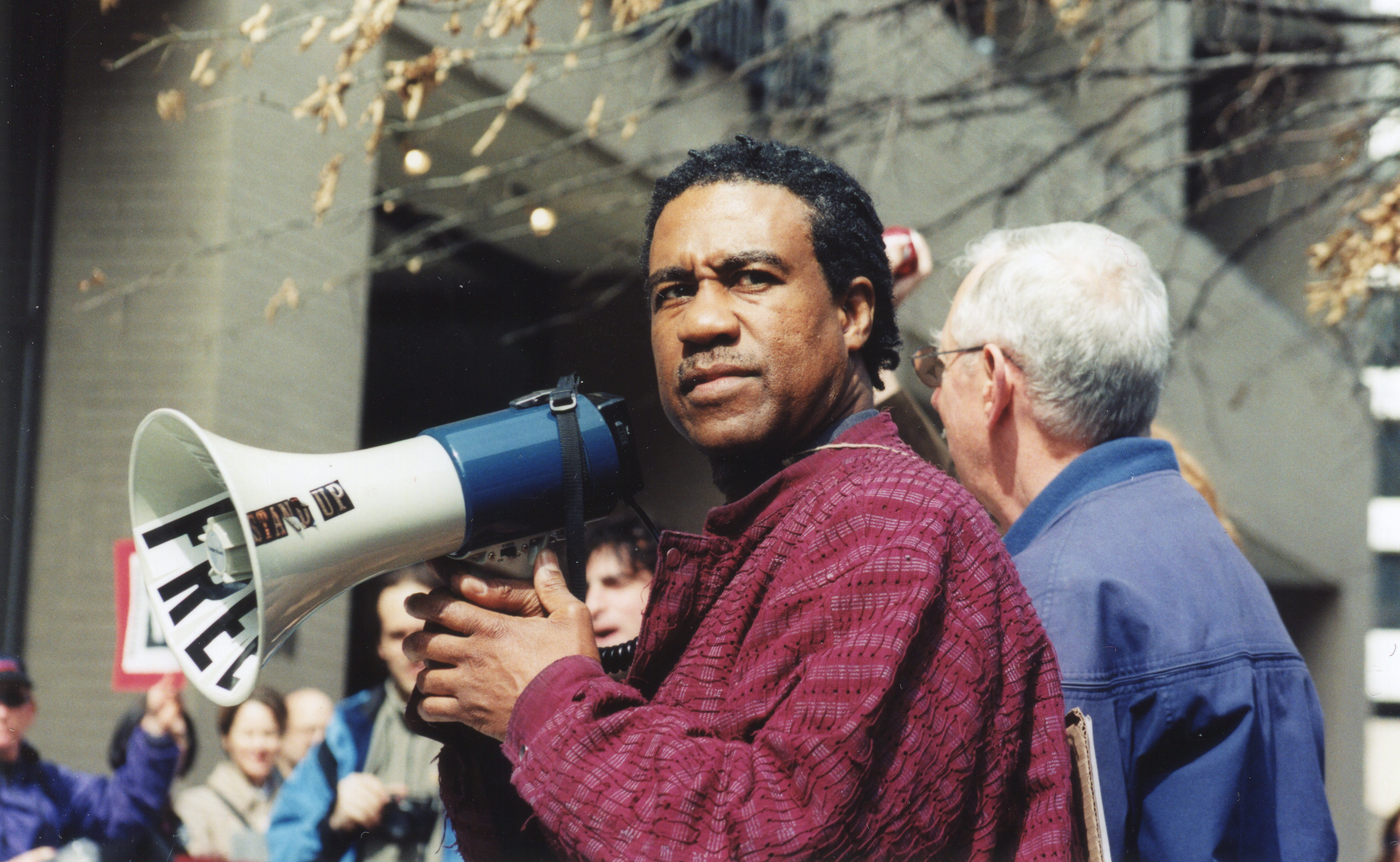 BLACK VOICES FOR PEACE DIE-IN anti-war demonstration in front of the Washington Post Building at 1150 15th Street, NW, Washington DC on Wednesday, 12 March 2003 by Elvert Barnes Photography